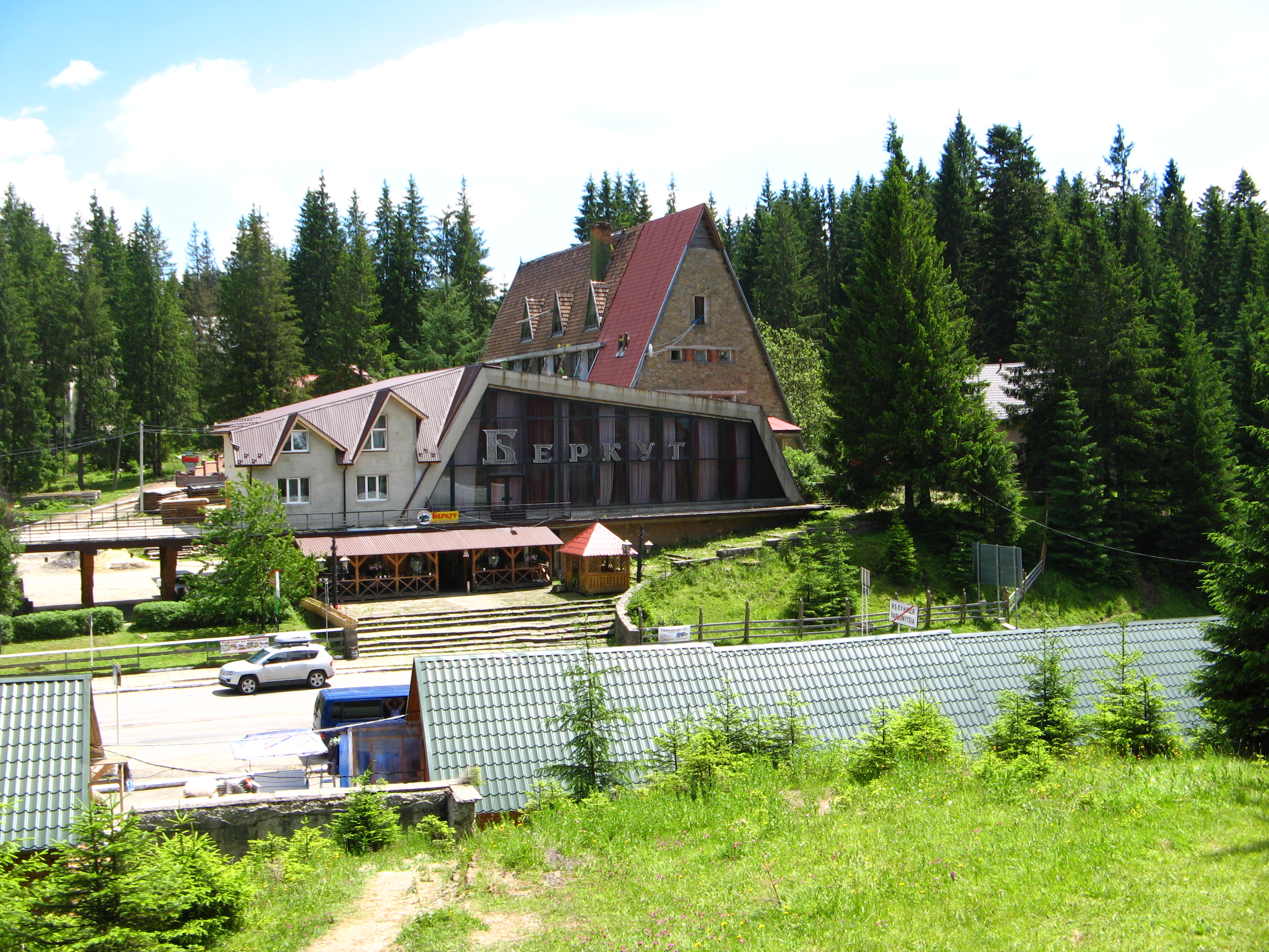 Yablonitsky Pass (2012)